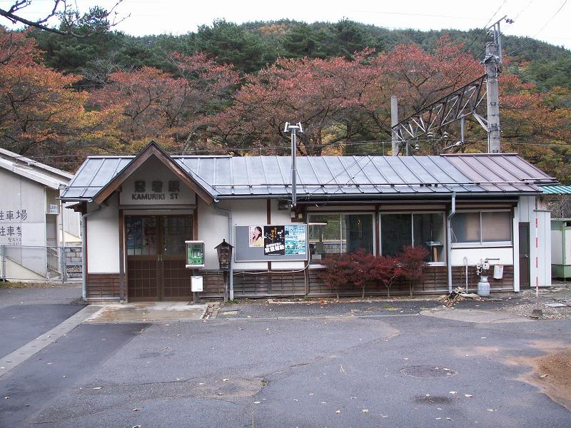 Kamuriki Station